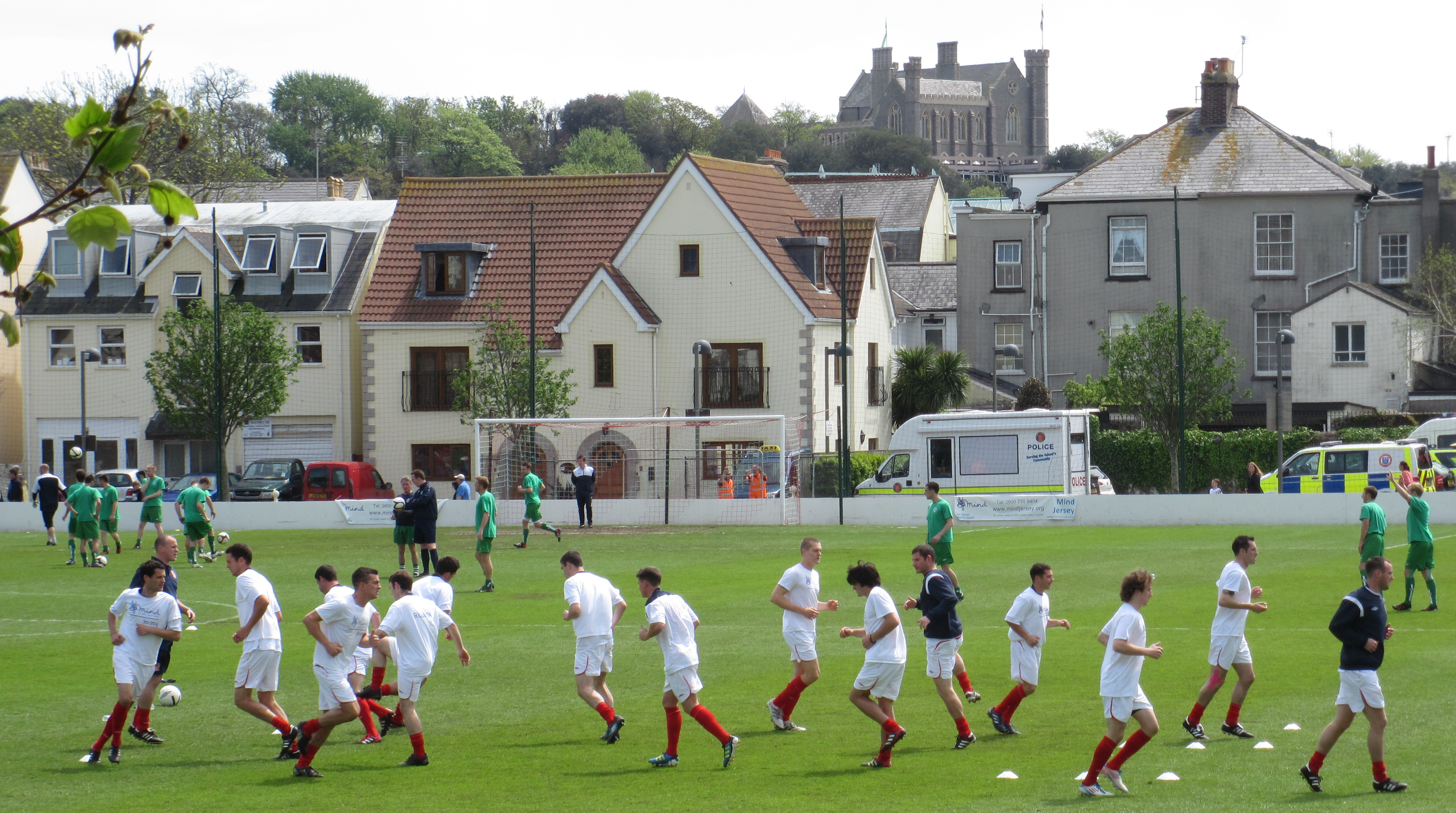 Muratti final at Springfield, Saint Helier, Jersey, between Jersey and Guernsey football teams, 7 May 2012 - pre-match warm-up